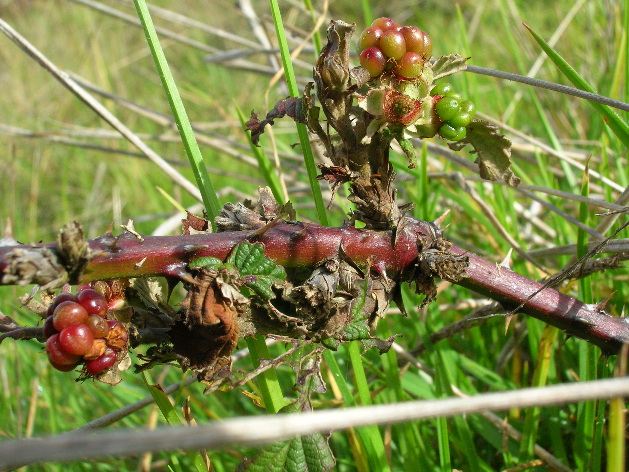 Rubus armeniacus (syn. R. discolor), fruit. Location: Maui, Haleakala Ranch